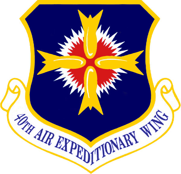 40th AEW